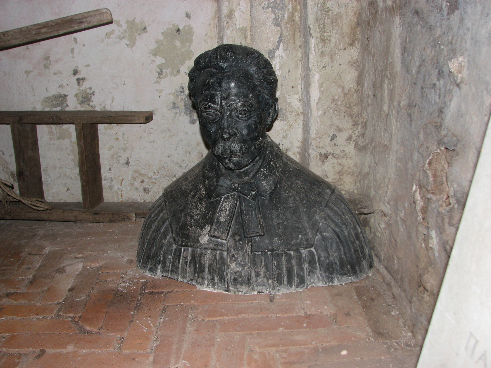 Nõo church, Nõo, Estonia, Bust of Martin Lipp (1854-1923)